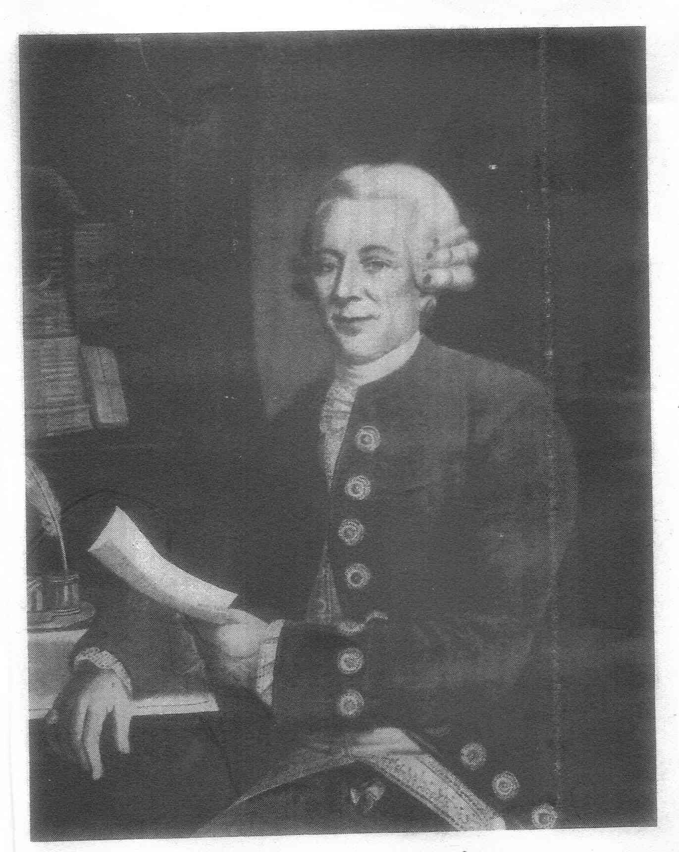 B/W reproduction of oil portrait of Simon Moritz Bethmann (1721-1782), co-founder with his brother Johann Philipp of Gebrüder Bethmann, later the Bethmann bank in Frankfurt am Main; the painting is property of the Bethmann family.